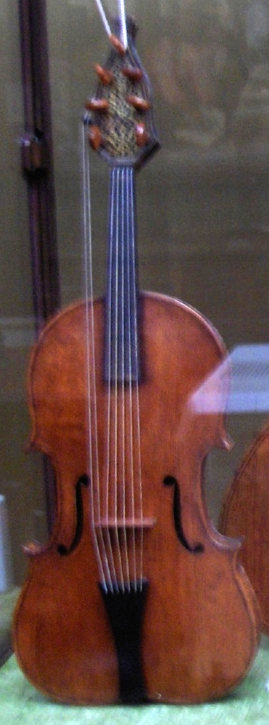 Lira da braccio made by Giovanni Daria around 1525 in Venice, collection of the Ashmolean Museum